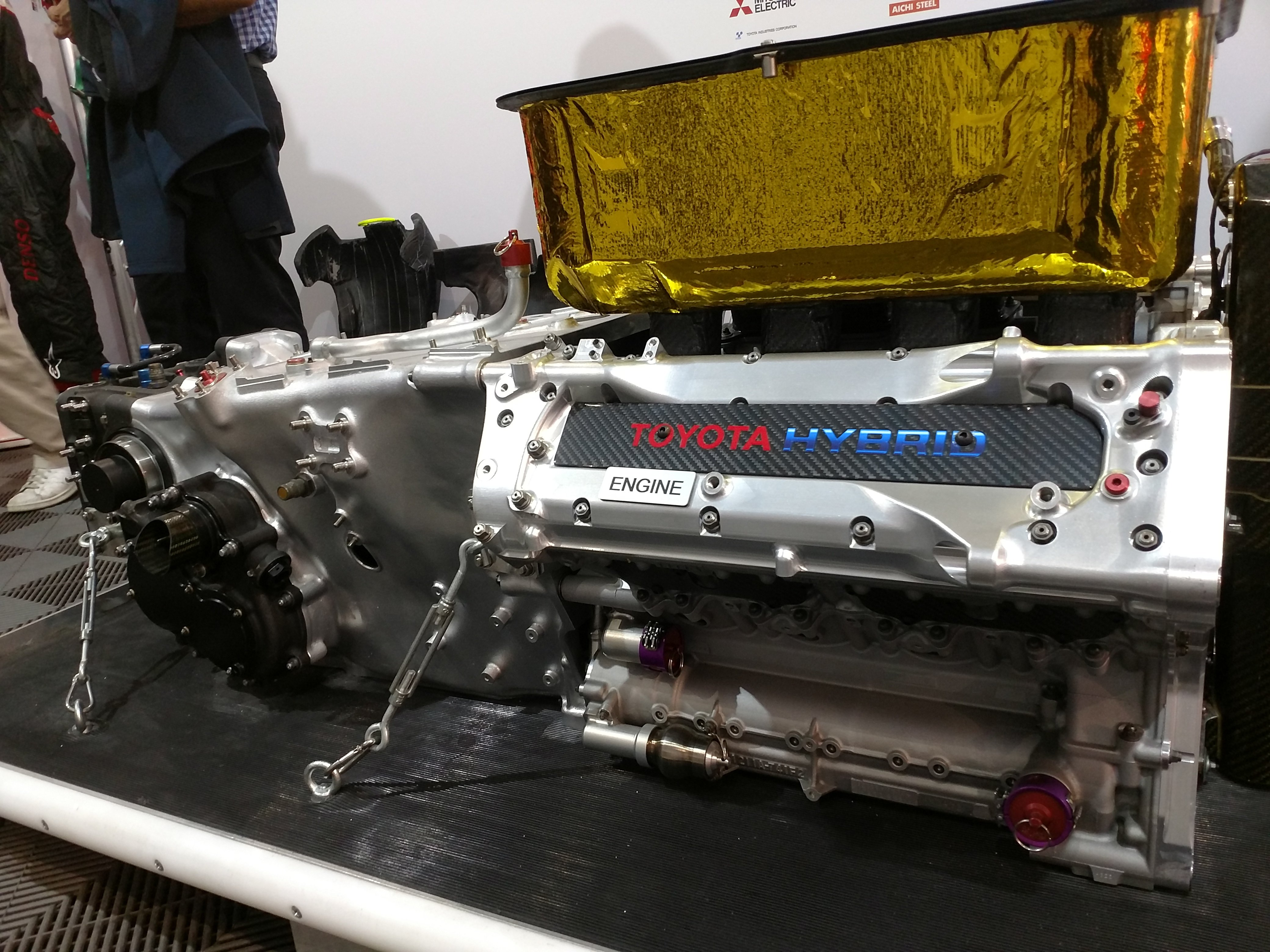 The Toyota TS040 3.7l petrol V8 engine on display in the at the 2018 24 Hours of LeMans